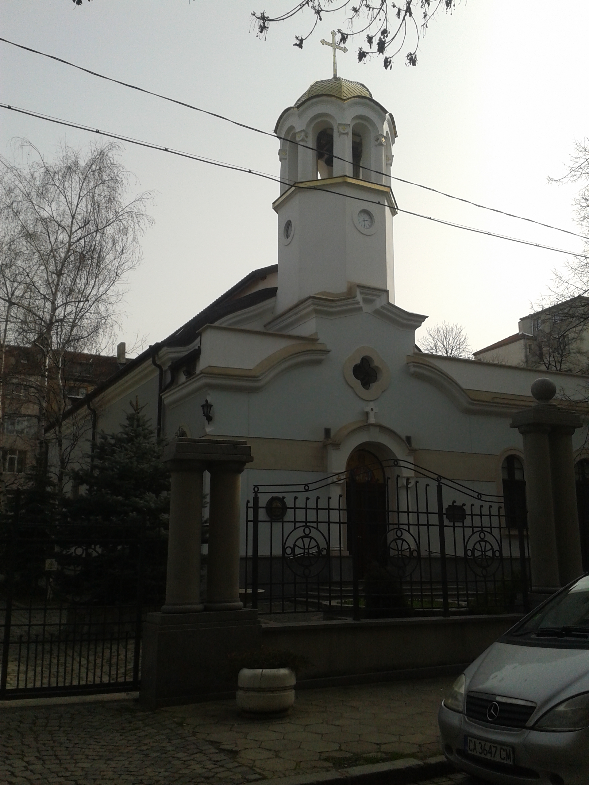 Dormition of Mary Greek Catholic Church in Sofia